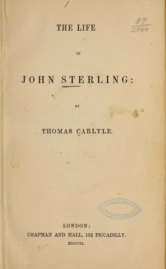 First Edition of Carlyle's Life of John Sterling